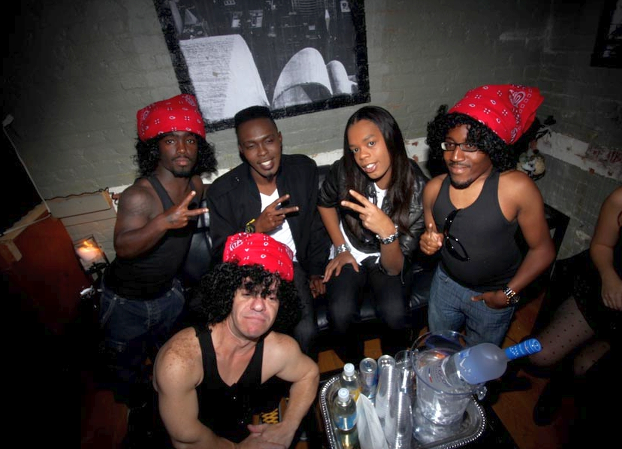 Antoine Dodson celebrating Halloween in 2010.